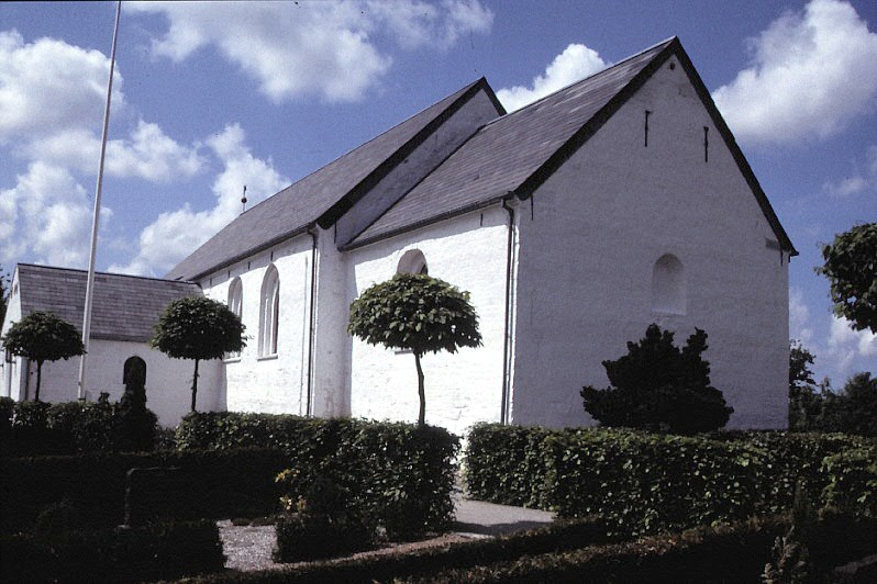 Hover Kirke in Vejle Kommune from apr. 1100